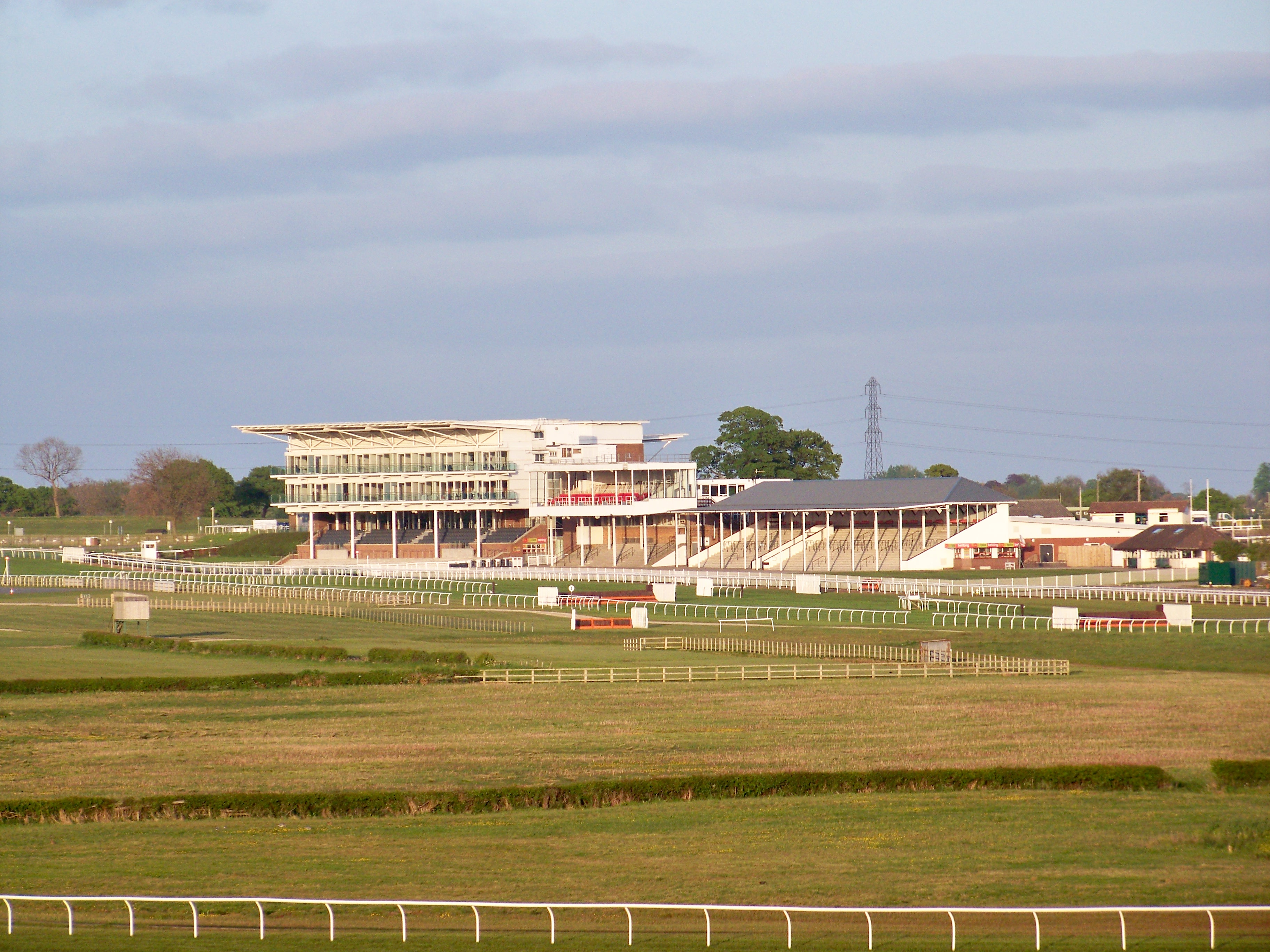 Stands at Wetherby Racecourse taken from a North Westerly perspective, Wetherby, West Yorkshire, UK. May 2009.